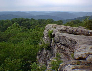 Picture of Claudius Smith Rock